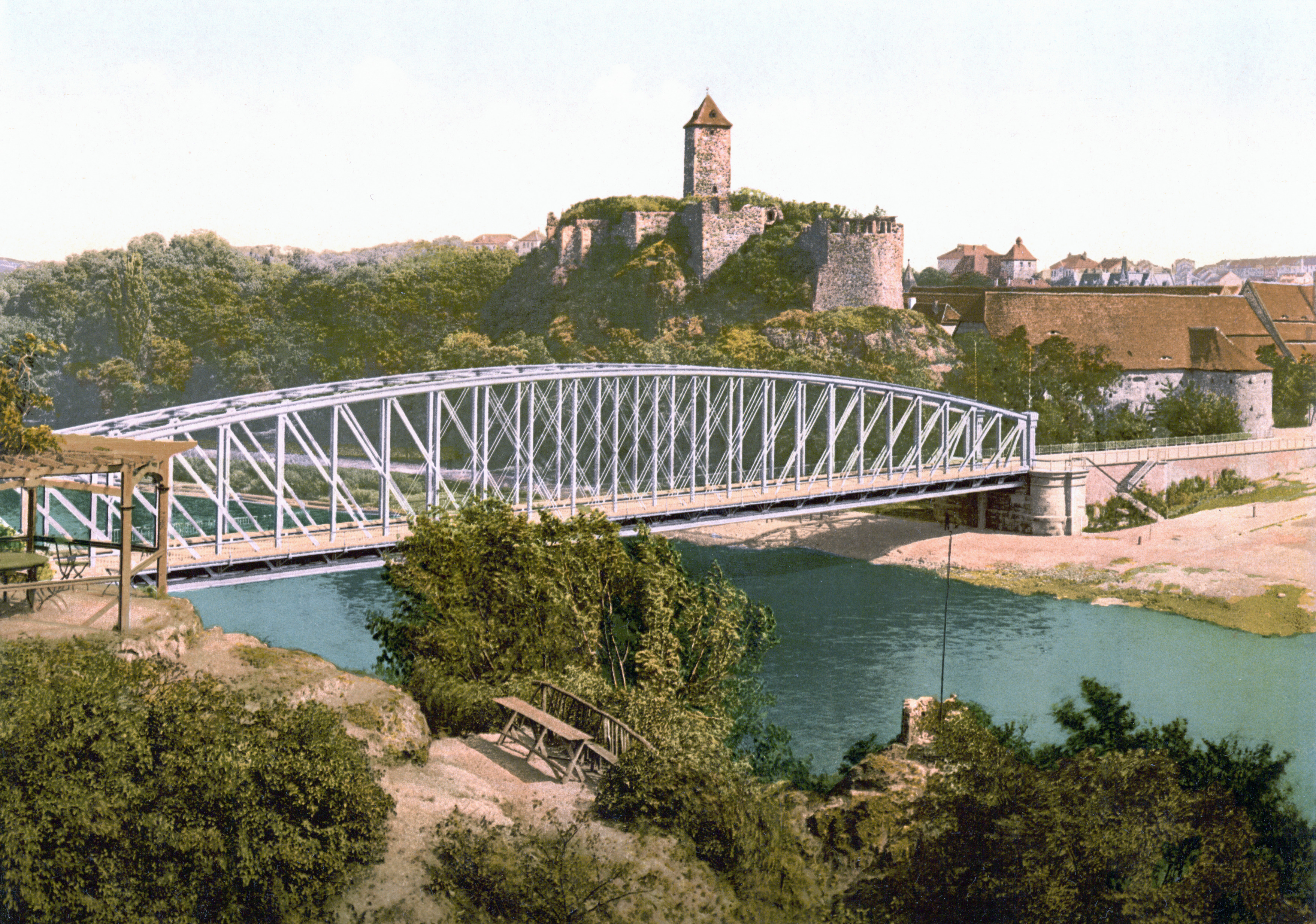 Giebichenstein Castle - between 1890 and 1900